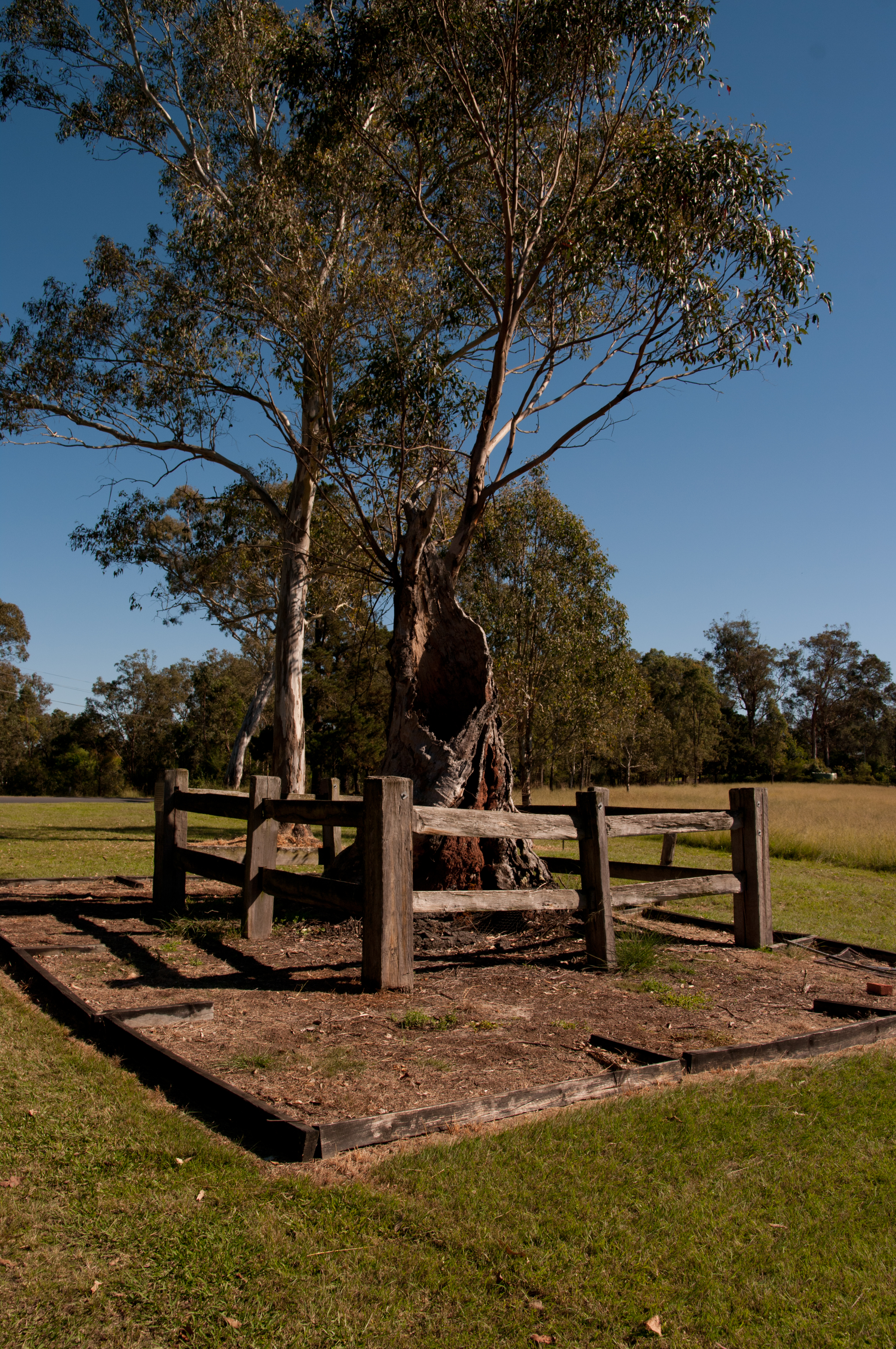 Ebenezer Church built c1809 and grounds tree under which the first and subsequent services were held from 1803 until the church was completed 1809